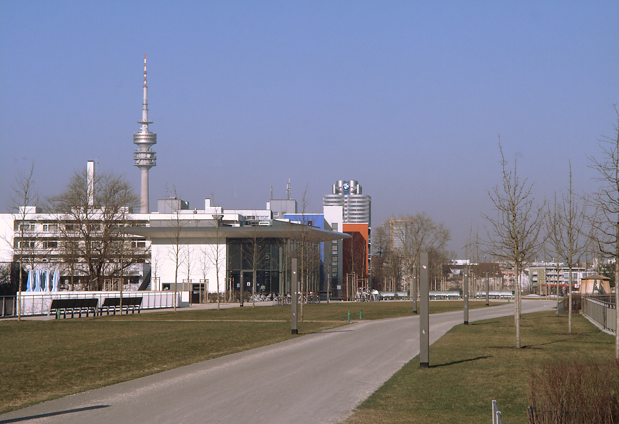 the Petuelpark recreation area in Munich. This area had formerly been part of the „Mittlerer Ring“ beltway but the roads are running in the underground today.